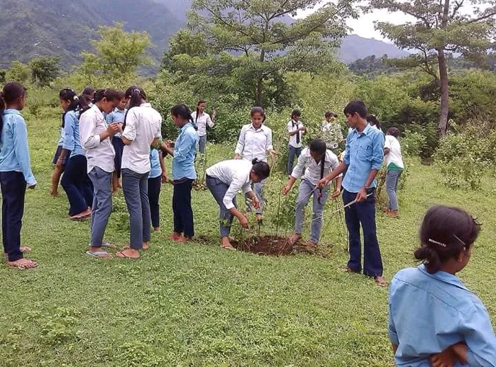 Aforestation